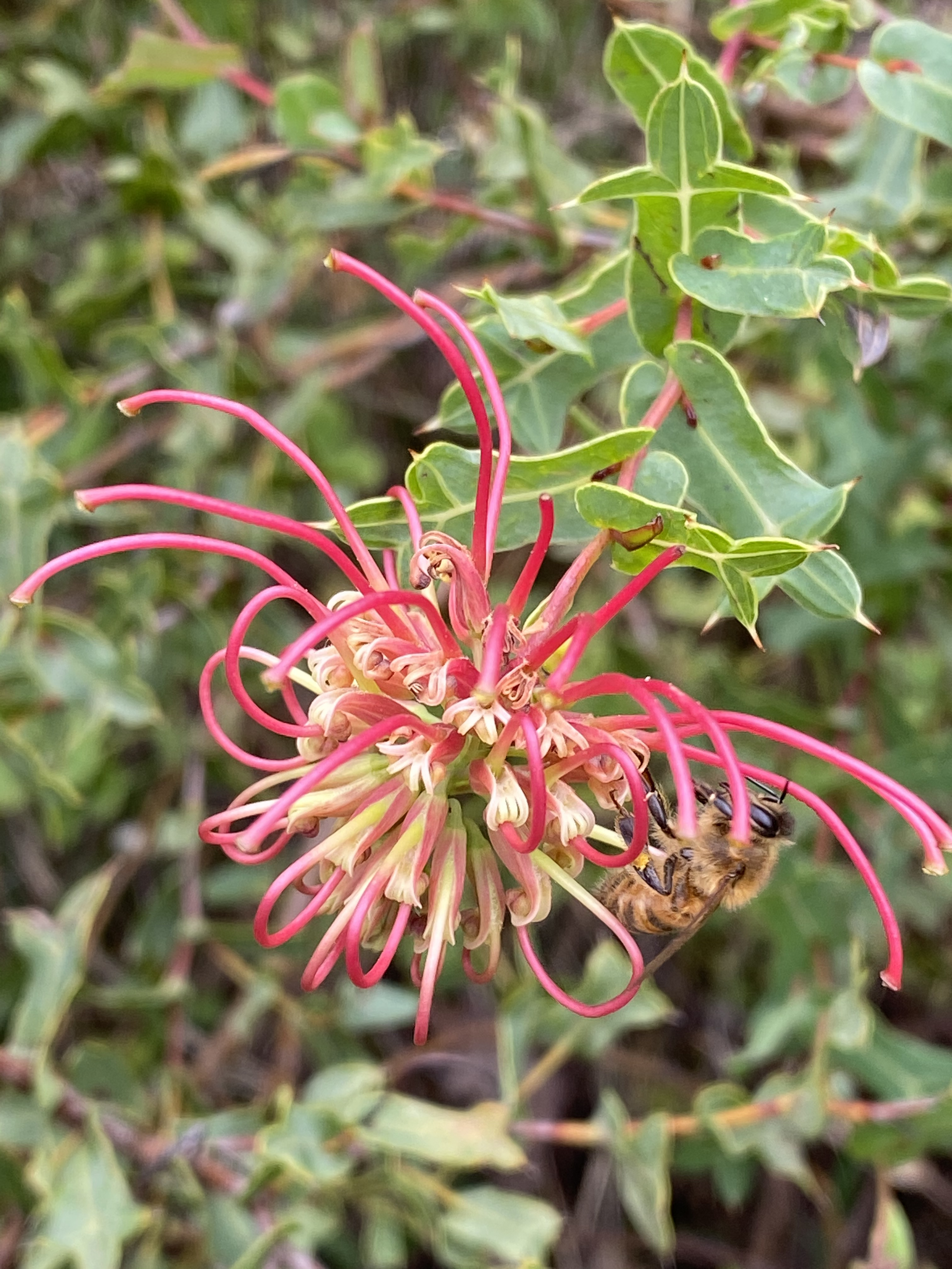 Grevillea maccutcheonii flower